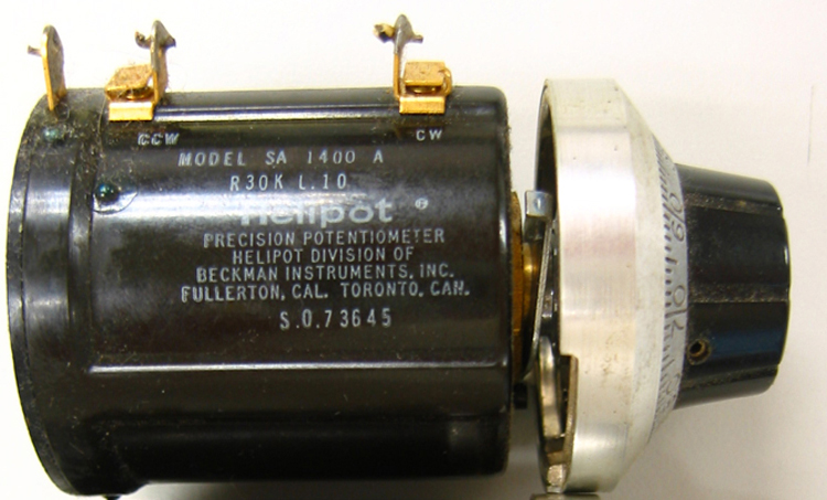 Beckman Helipot Potentiometer Model SA1400A Black finished cylindrical casing with three copper electrodes in a line next to product inscription; nickel knob is raised above the cylinder; outer dial goes from 0-15 (but only three digits are visible through its viewing slit); outer dial value changes when inner dial (0-100) is manually rotated 360 degrees; knob handle is black plastic. Made by Helipot Division of Beckman Instruments, Inc., Fullerton, California, United States.